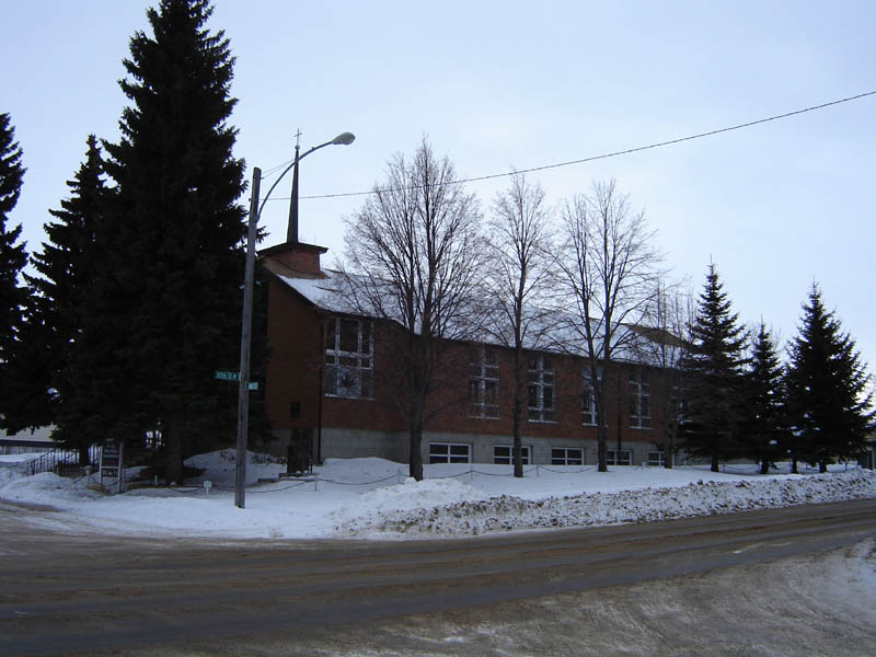 Our Lady of Czestochowa Roman Catholic Church, Meadow Green, Confederation SDA, Saskatoon, Saskatchewan, Canada